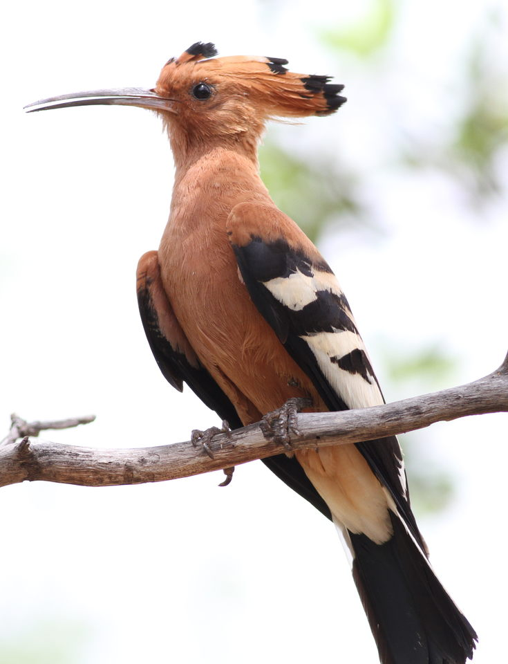 African Hoopoe, Upupa africana (Upupa epops) at Marakele National Park, Limpopo, South Africa